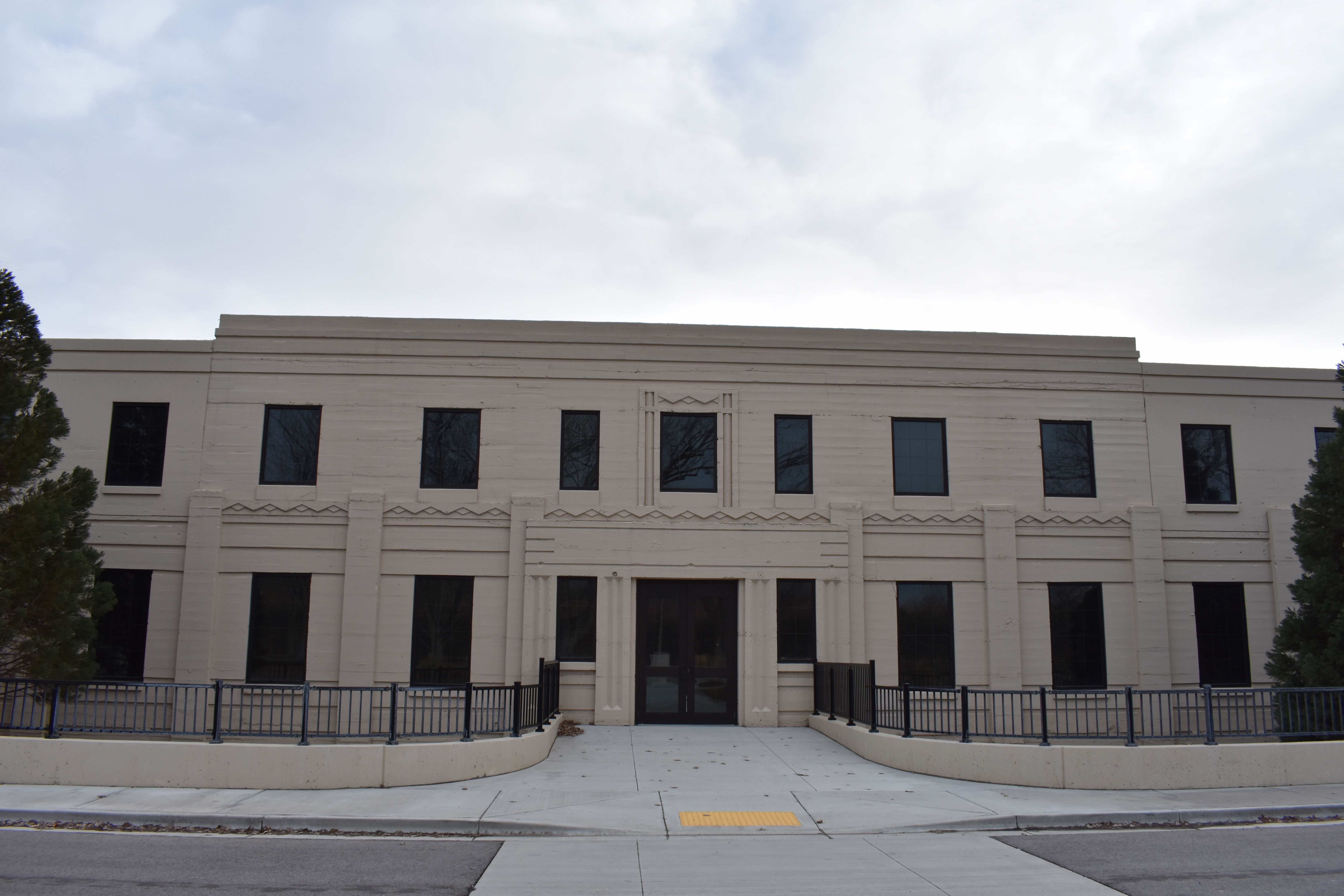 The Idaho National Guard Armory in Boise is listed on the National Register of Historic Places.